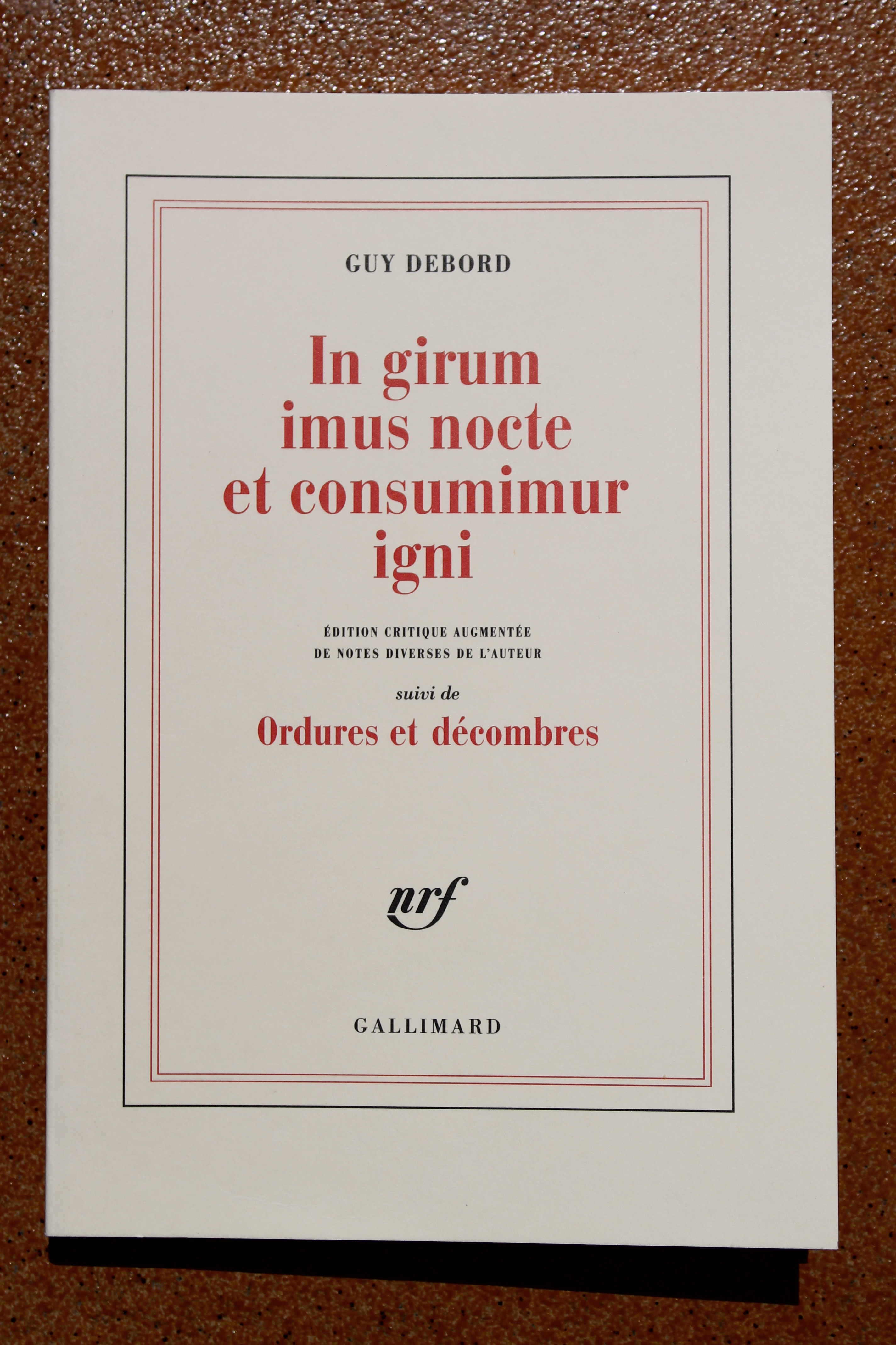 In girum imus nocte et consumimur igni (Gallimard)